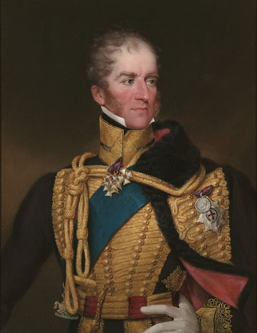 Portrait of Henry William Paget, 1st Marquess of Anglesey KG (1768-1854)